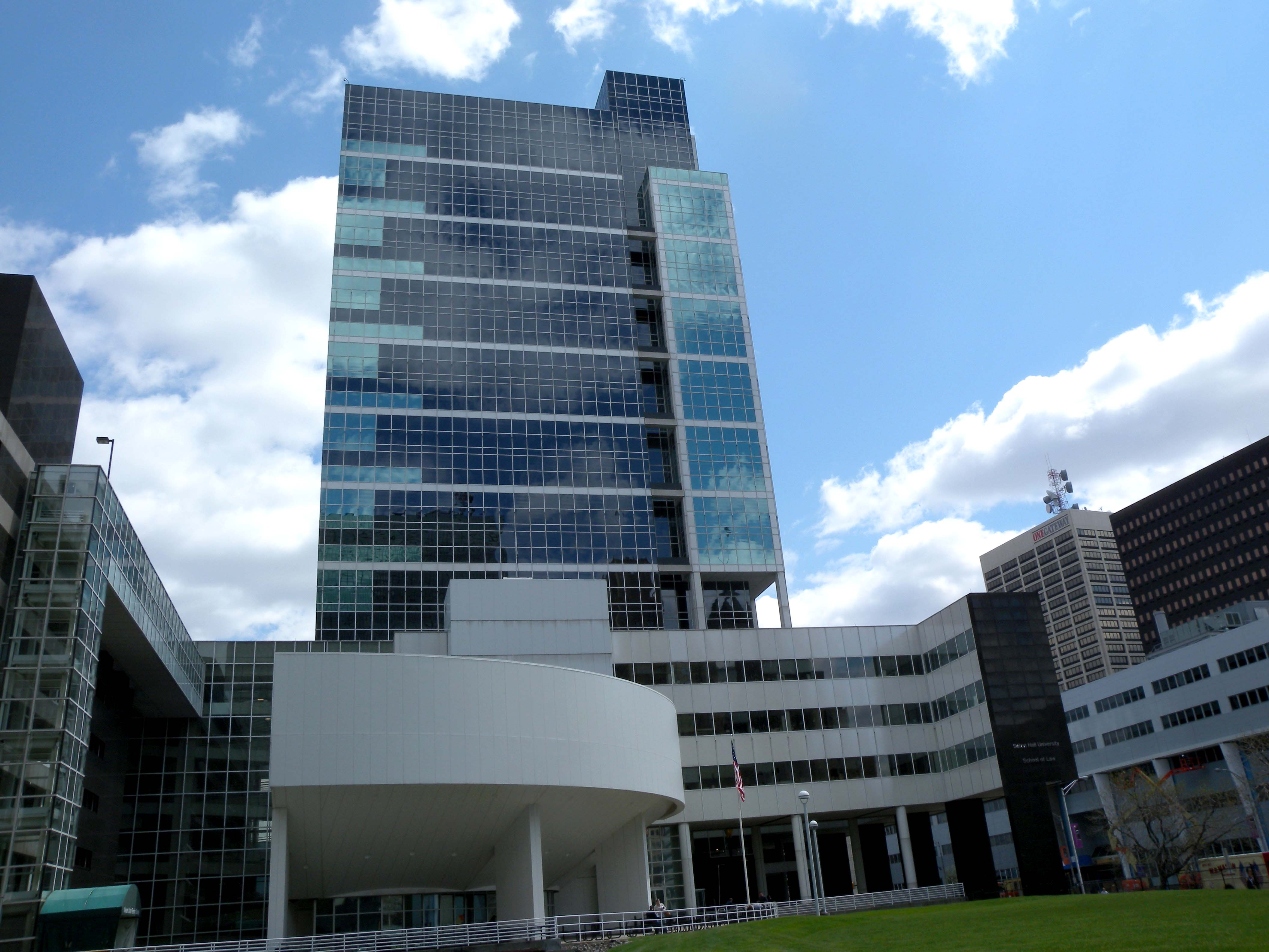 Looking east from Mulberry Street at law school of Seton Hall University in Newark at midday. See File:One Newark Center fr Cherry St jeh.jpg for other side. ZIP 17102.